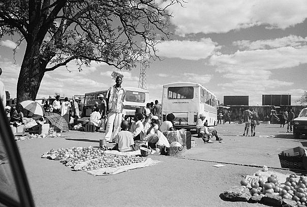 Mbare Bus Terminus